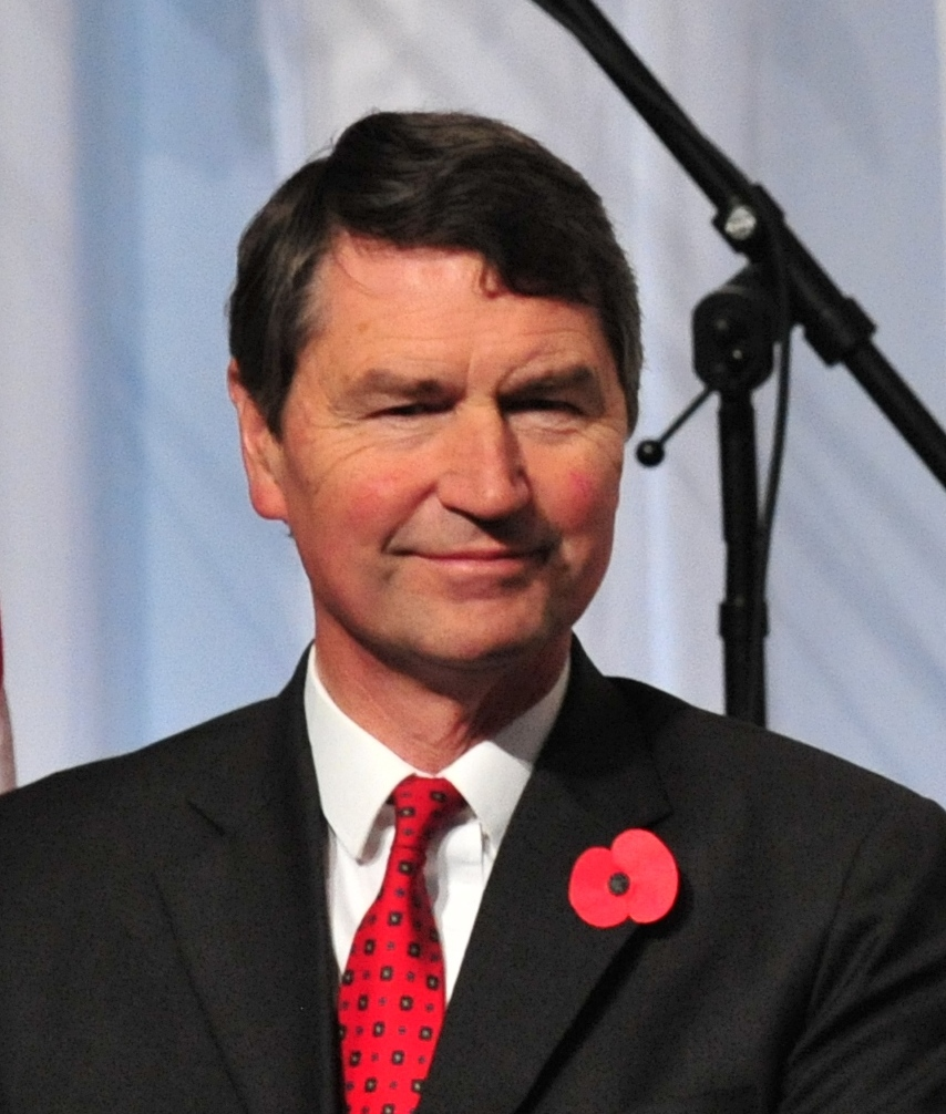 Princess Anne, the Princess Royal, and her husband, Vice Admiral Sir Timothy Laurence.